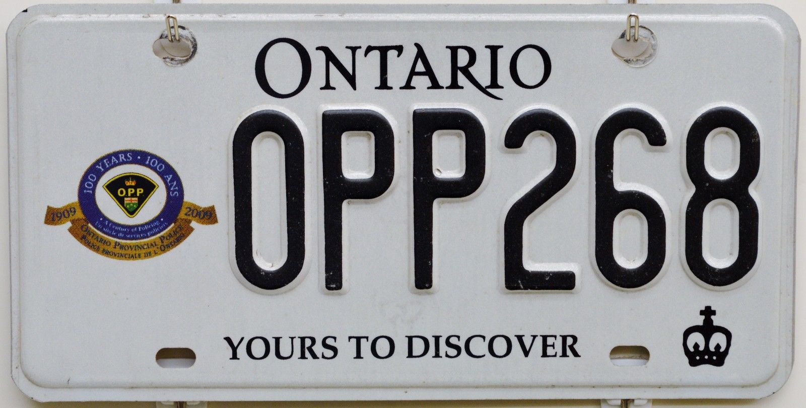 Special license plate commemorating the OPP 100th Anniversary. These were used on some OPP vehicles from 2009 to 2011.